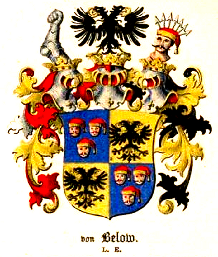 Coat of arms of Below family